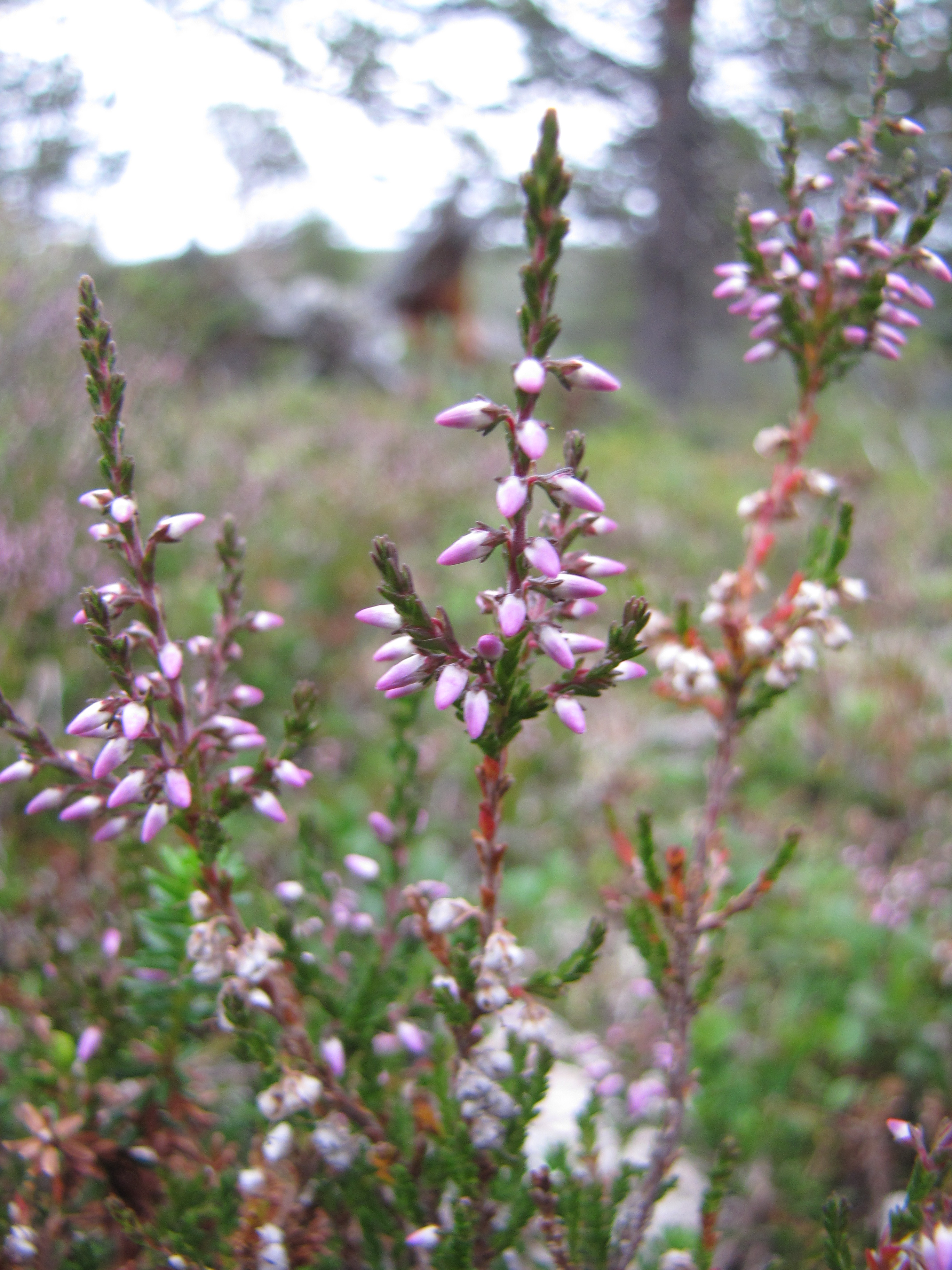 Common Heather (Calluna vulgaris) in Kevo Strict Nature Reserve, Finland